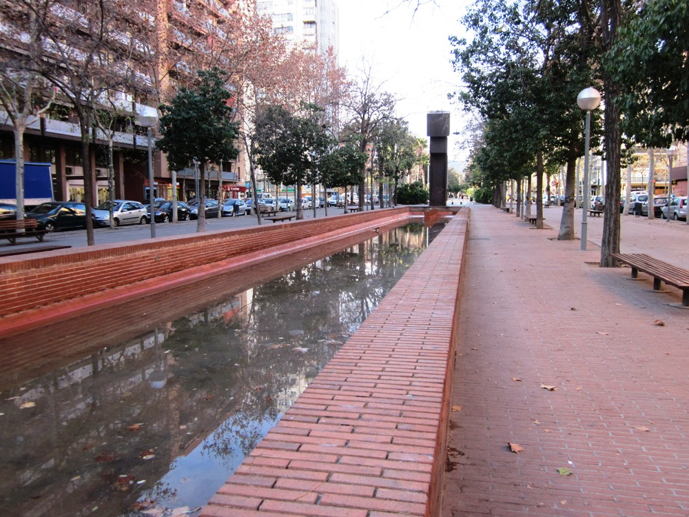 Rambla Prim. Avenue located in the Sant Martí district of Barcelona. Is devoted to military Catalan born in Reus in 1814.